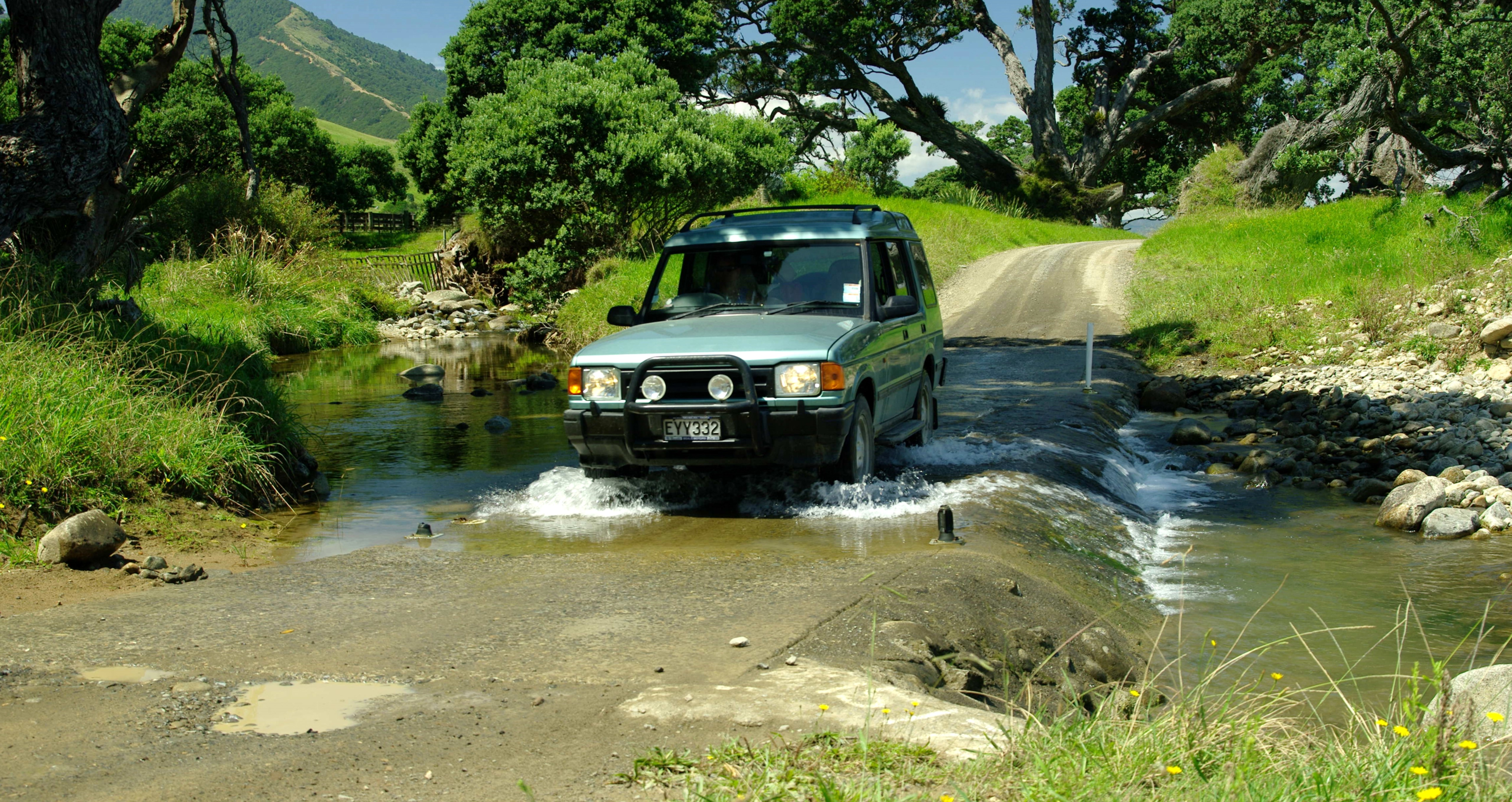 A Land Rover Discovery crossing a ford in Coromandel, New Zealand.